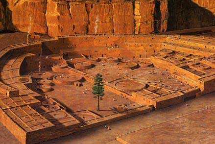 A digital model of ancient Pueblo Bonito (Chaco Canyon, New Mexico, United States) before it was abandoned.